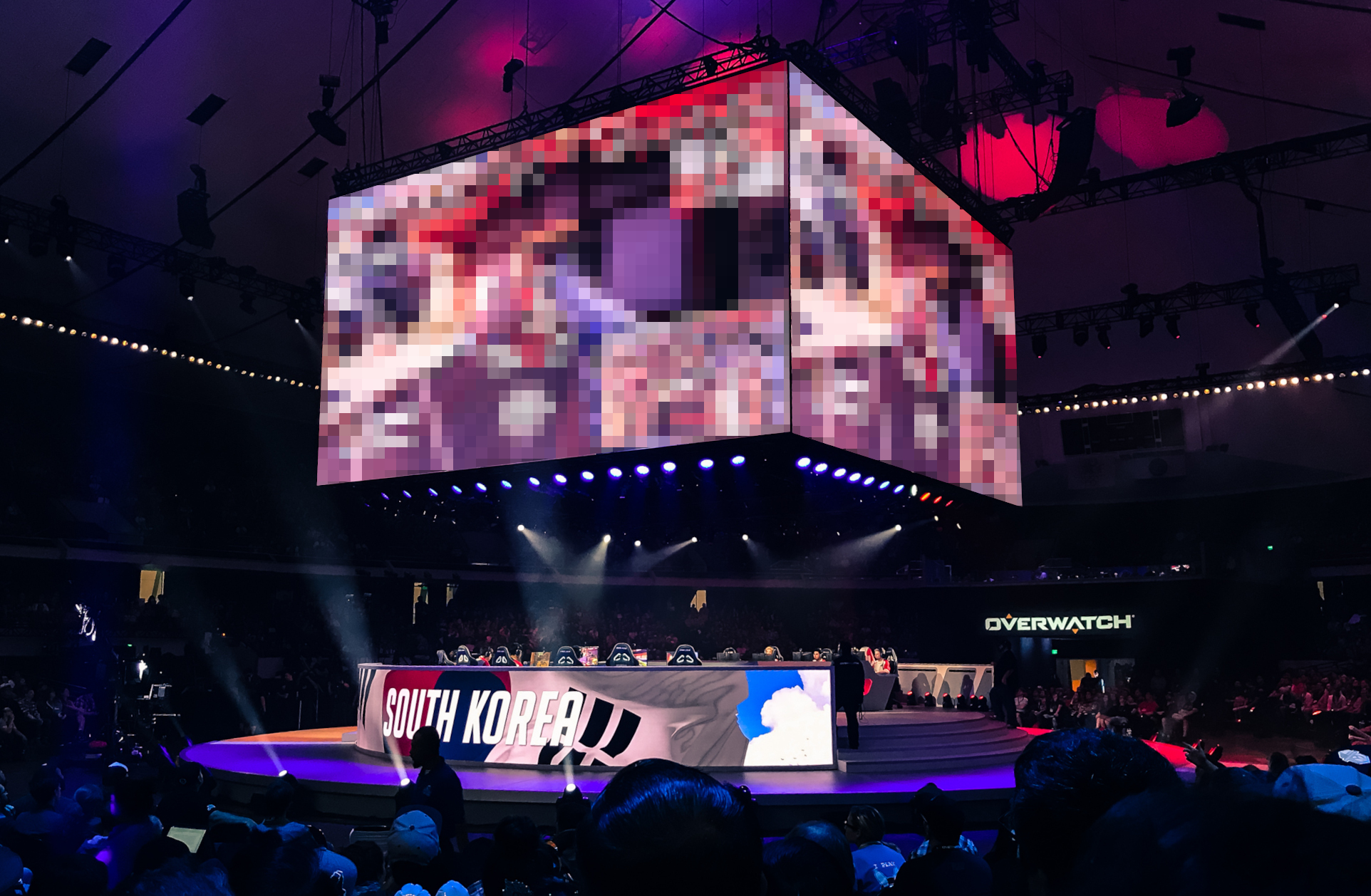 South Korea v Canada at the 2017 Overwatch World Cup Finals at the Anaheim Convention Center during BlizzCon.